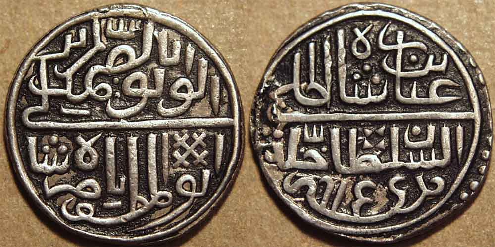 Silver half tanka of the Sultan of Malwa Nasir Shah (ruled 1500-1510)